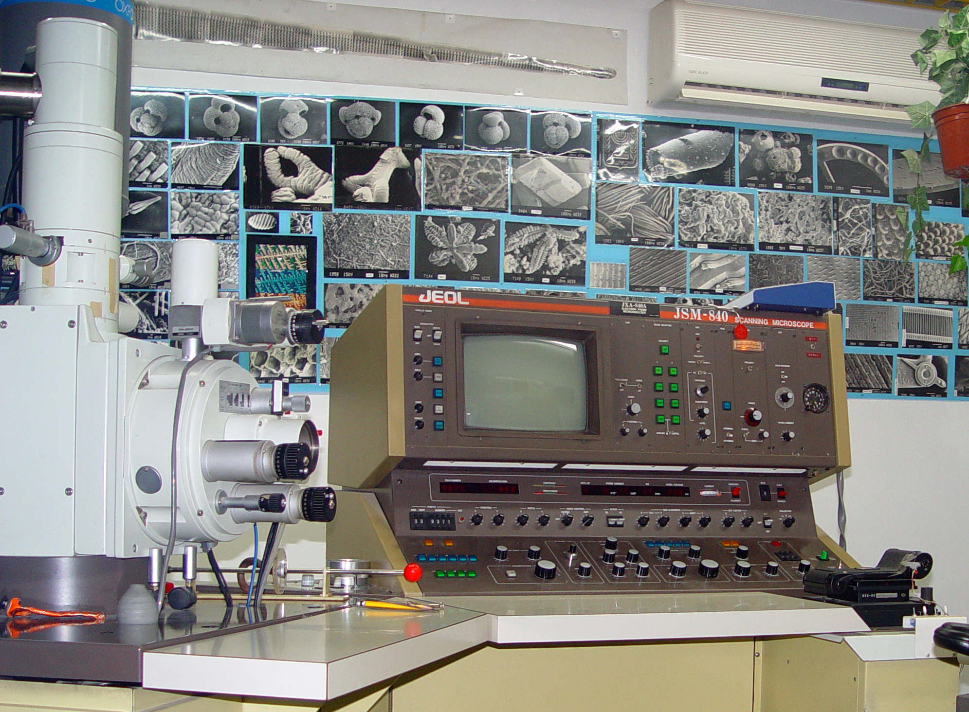 Analog type scanning electron microscope in the Geological Survey of Israel laboratory (Jerusalem)